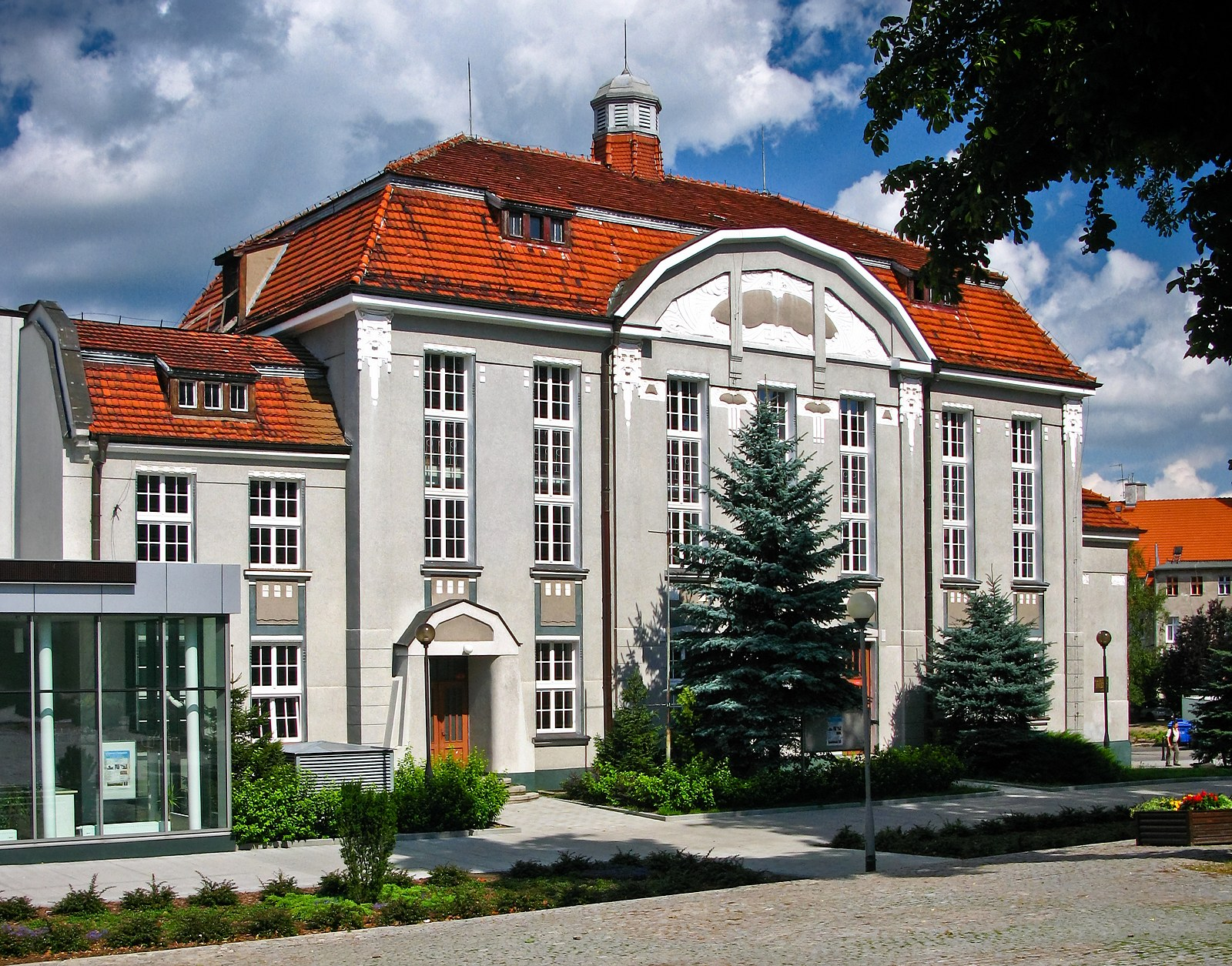 Former eveangelical house. Now concert hall.